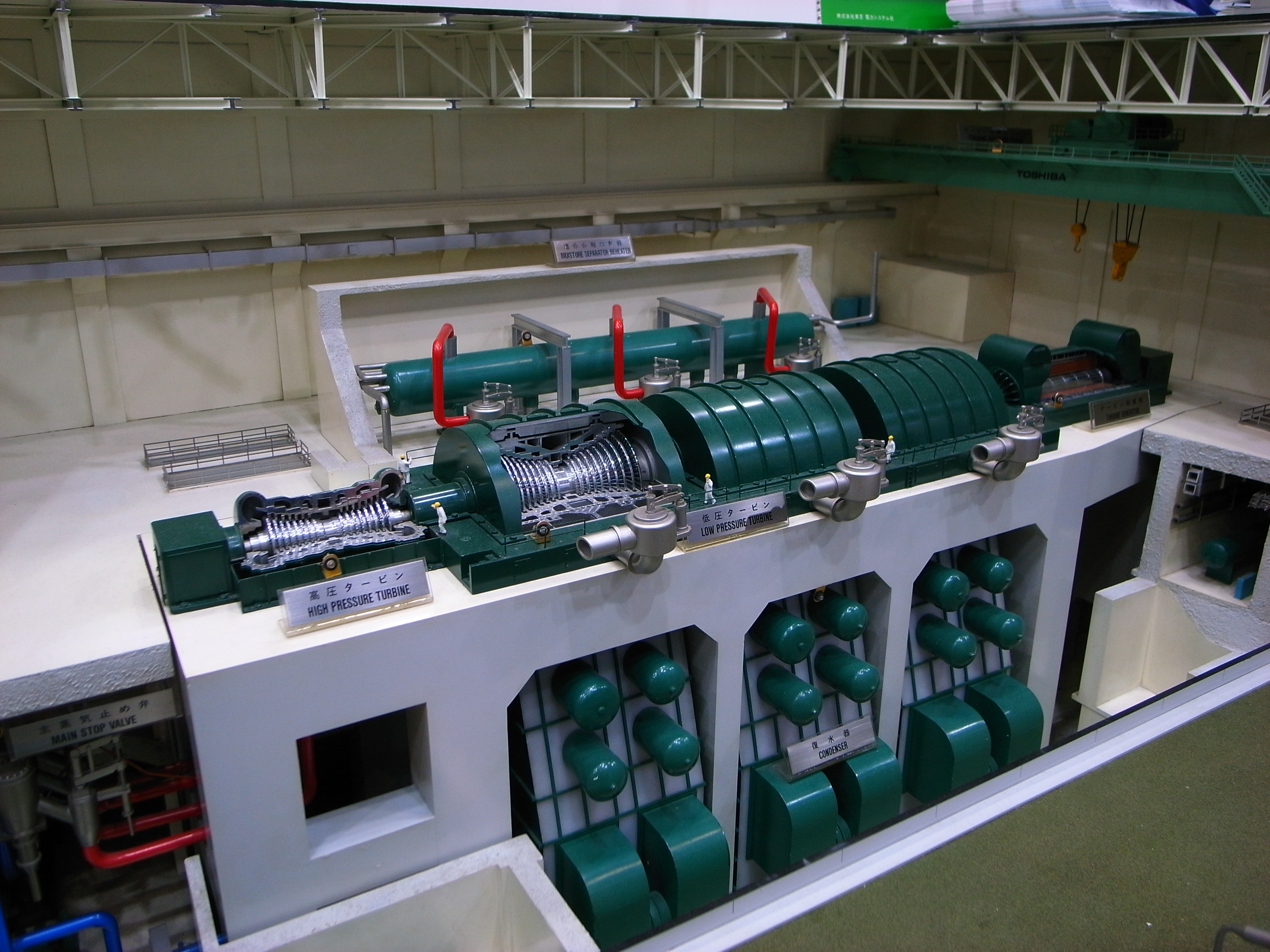 Model of the nuclear power plant from Toshiba with ABWR